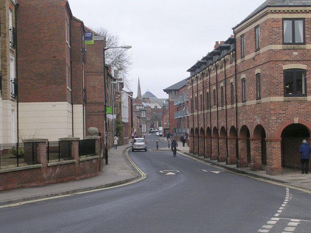 Skeldergate - Bishopsgate Street